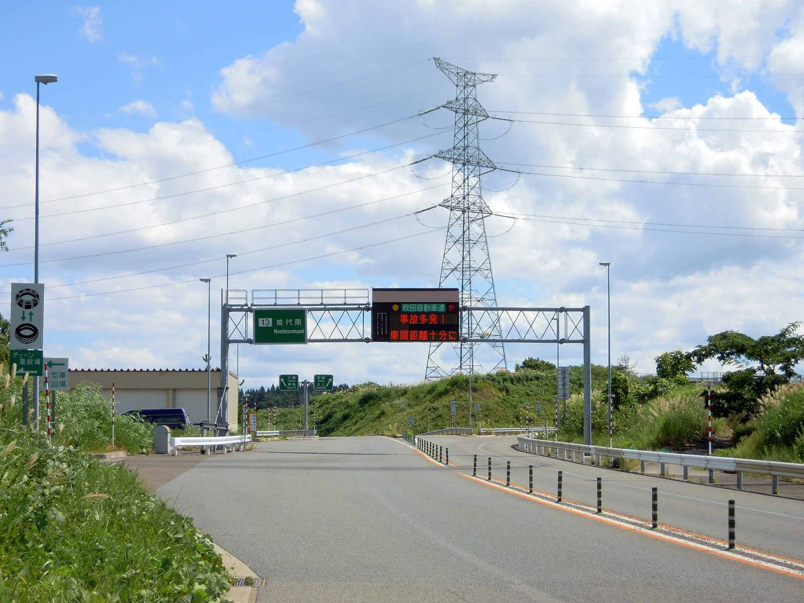 This Interchange, Noshiro-Minami Interchange, is on Akita Expressway, in Noshiro City Akita Prefecture, Japan.